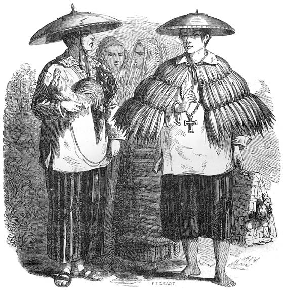 Tagalog dress, early 1800s. Original caption: Costumes tagals. From Aventures d'un Gentilhomme Breton aux iles Philippines by Paul de la Gironiere, published in 1855.